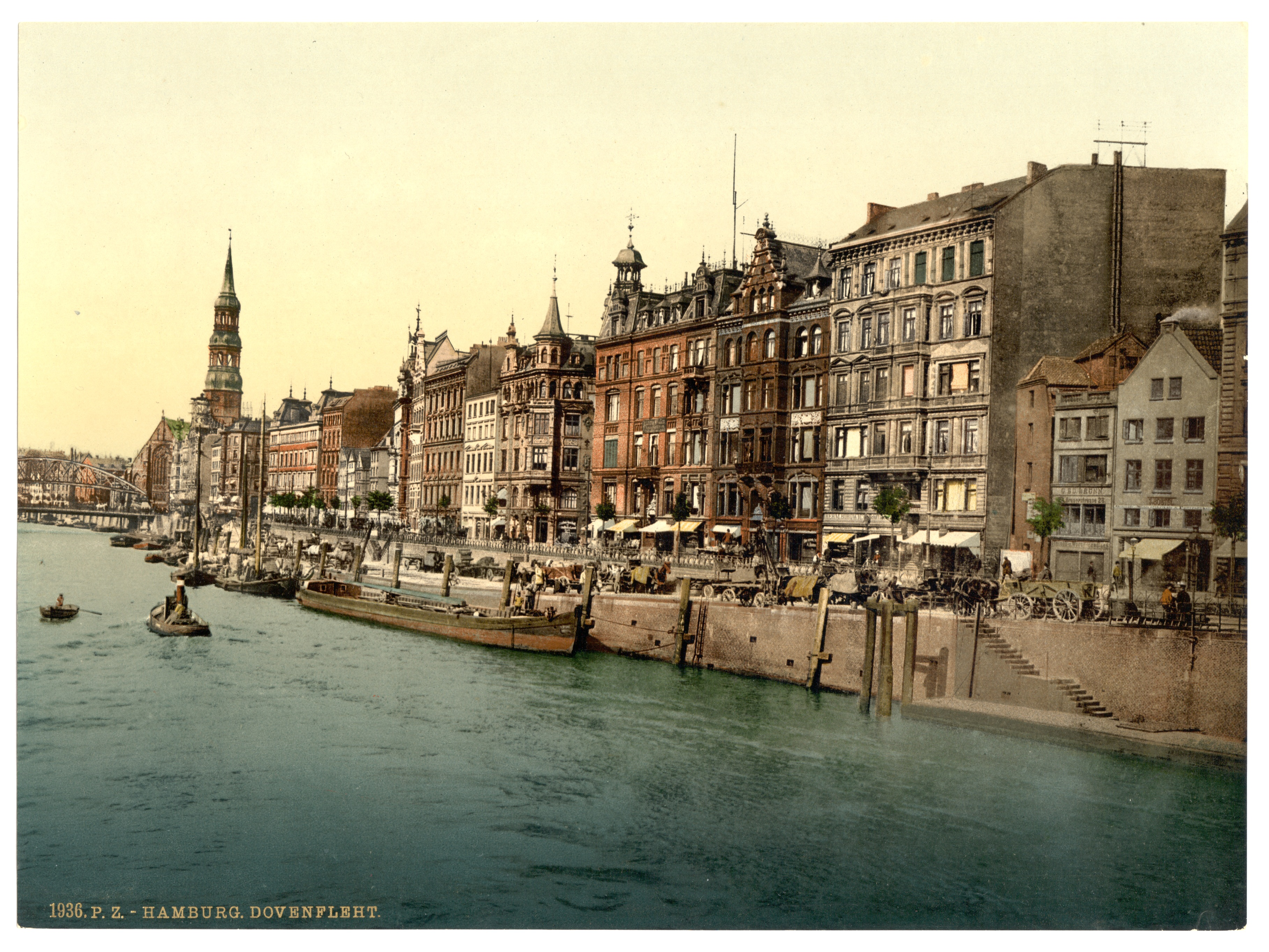 Print no. "1936".; Title from the Detroit Publishing Co., catalogue J-foreign section. Detroit, Mich. : Detroit Photographic Company, 1905..; Forms part of: Views of Germany in the Photochrom print collection.